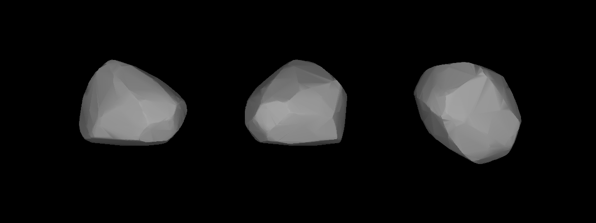 A three-dimensional model of 5 Astraea that was computed using light curve inversion techniques.